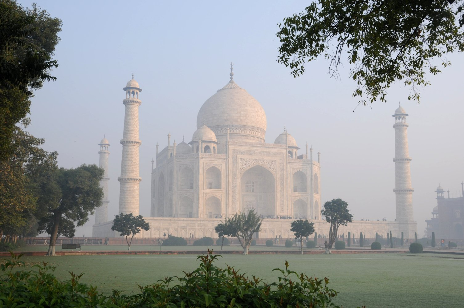 Taj Mahal, an early morning view, Agra.